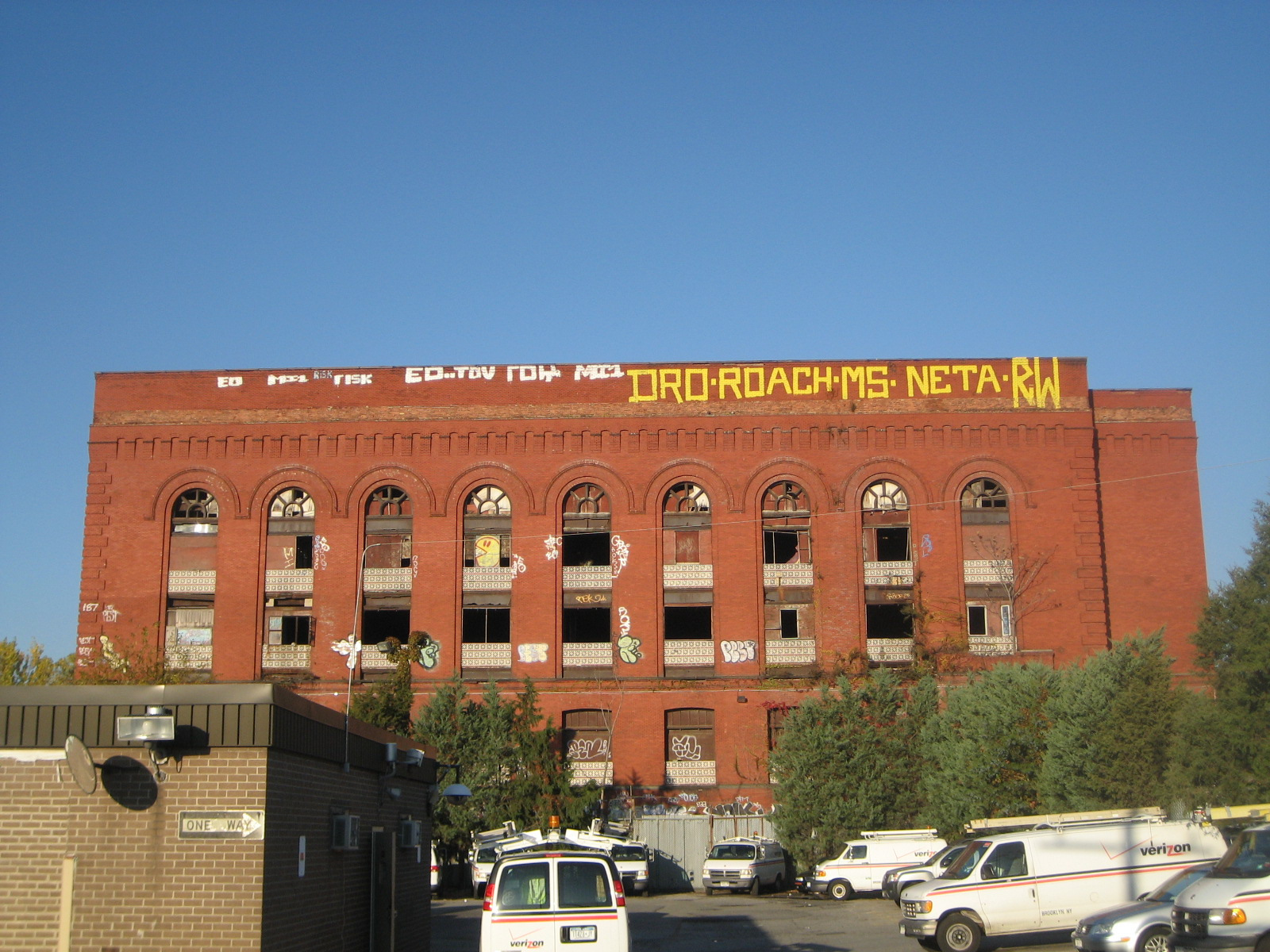 Looking northeast from 3rd Street at the former BRT (see ) Power House between Third Avenue and the Gowanus Canal, currently vacant and owned by Verizon Communications.